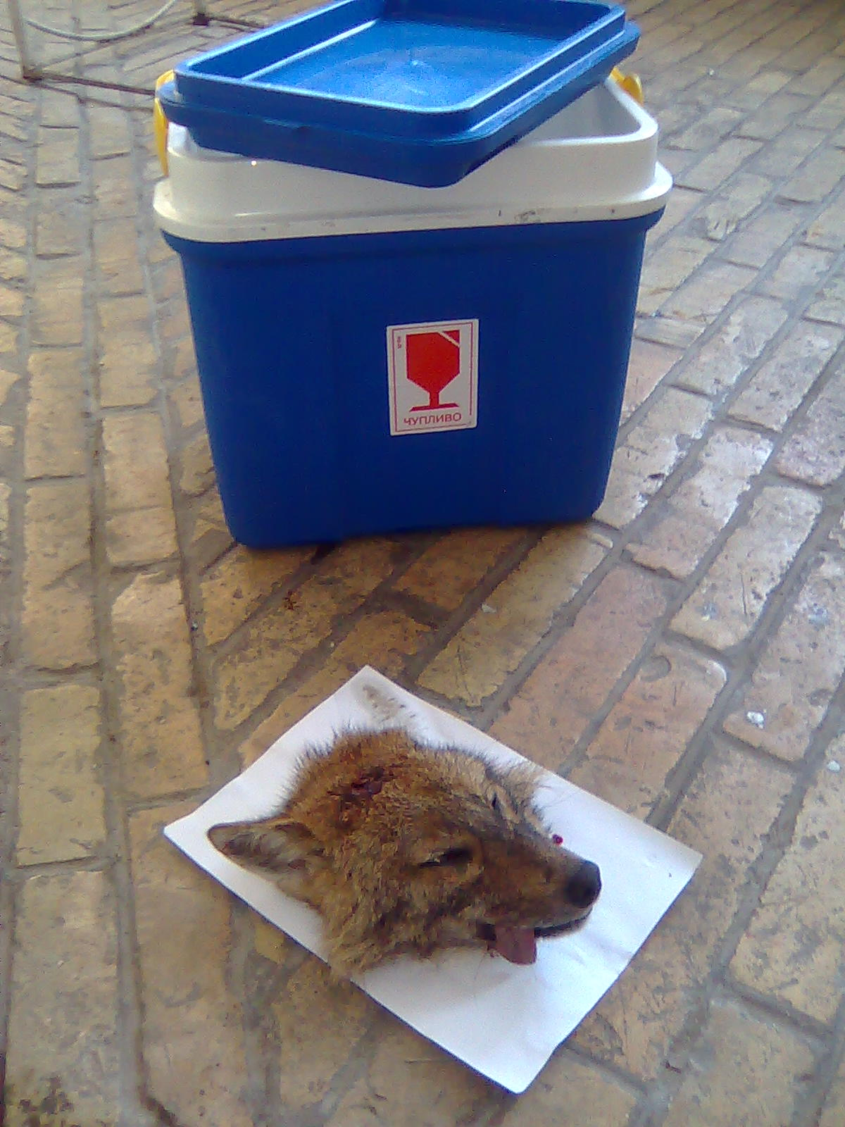 Jackal head, obs. Rabies